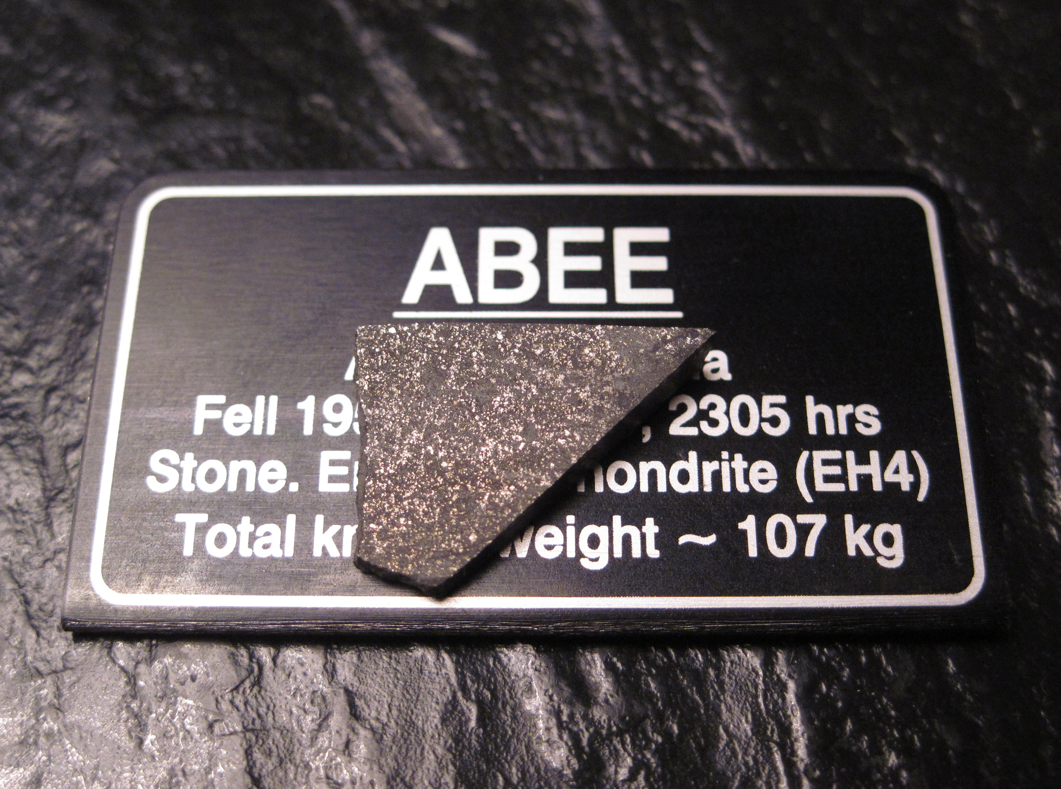 This beautiful and rare enstatite chondrite IMB (EH4) fell in June of 1952, in Alberta, Canada. According to witnesses, a brilliant fireball lit up the sky north of Edmonton for several seconds and was followed by rumbling sounds. One individual who was attending a drive-in movie claimed that the light from the fireball was so bright it obscured the screen. Several days after the fireball event, a farmer discovered an unusual hole in his wheat field. At the bottom of this hole rested a single large meteorite mass with a weight of ~107 kgs! This was the only Abee mass recovered from the fall. This small triangular slice weighs 1.26 grams and comes from The Earth's Memory in France.